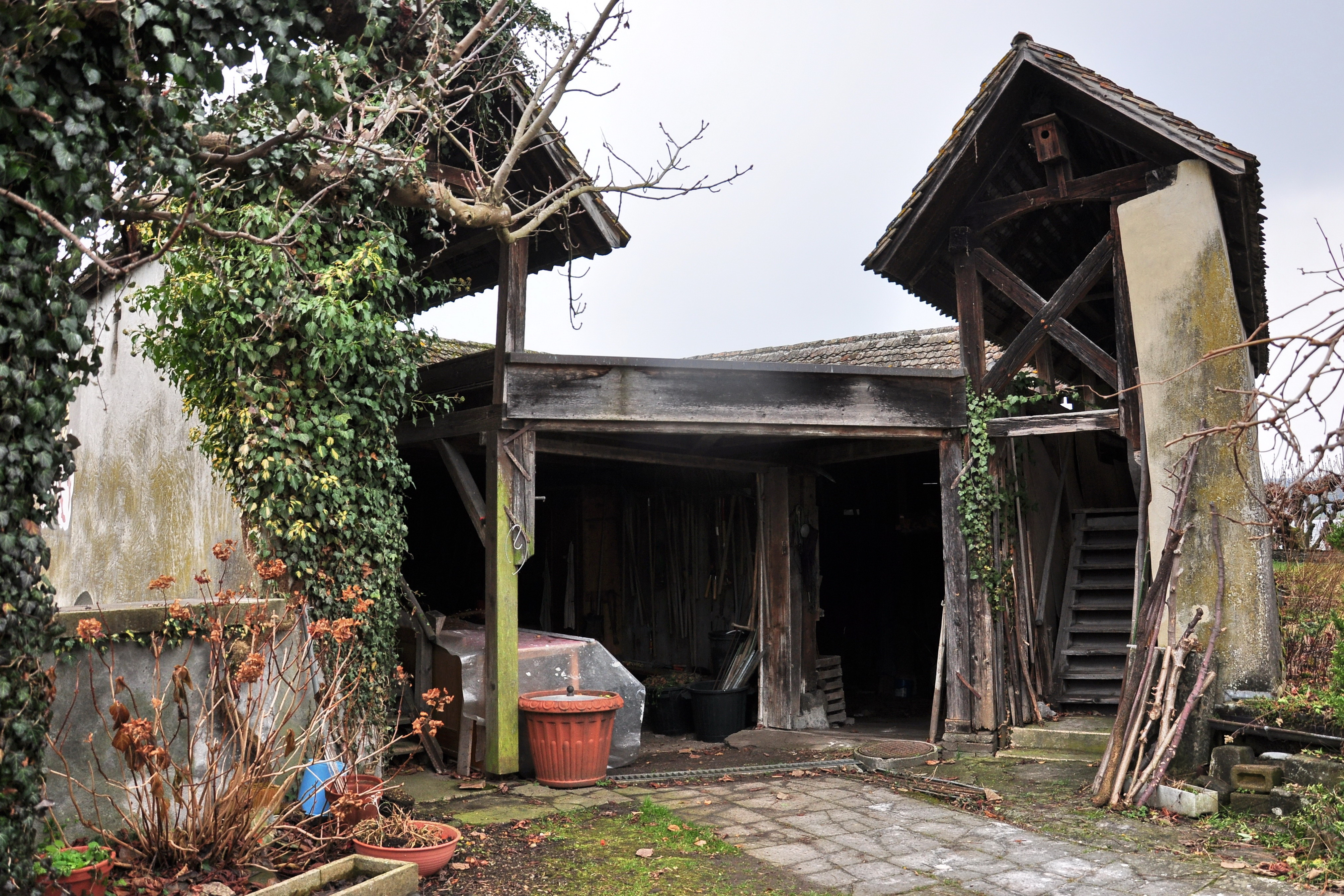 Endinger fortification, Kapuzinerkloster in Rapperswil (Switzerland)